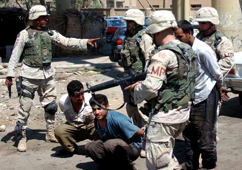 Original Caption: "Soldiers of the 115th Military Police Company, a National Guard unit from Rhode Island, isolate Iraqi civilians as soldiers search their vehicles. U.S. Army photo by Spc. Robert Liddy.